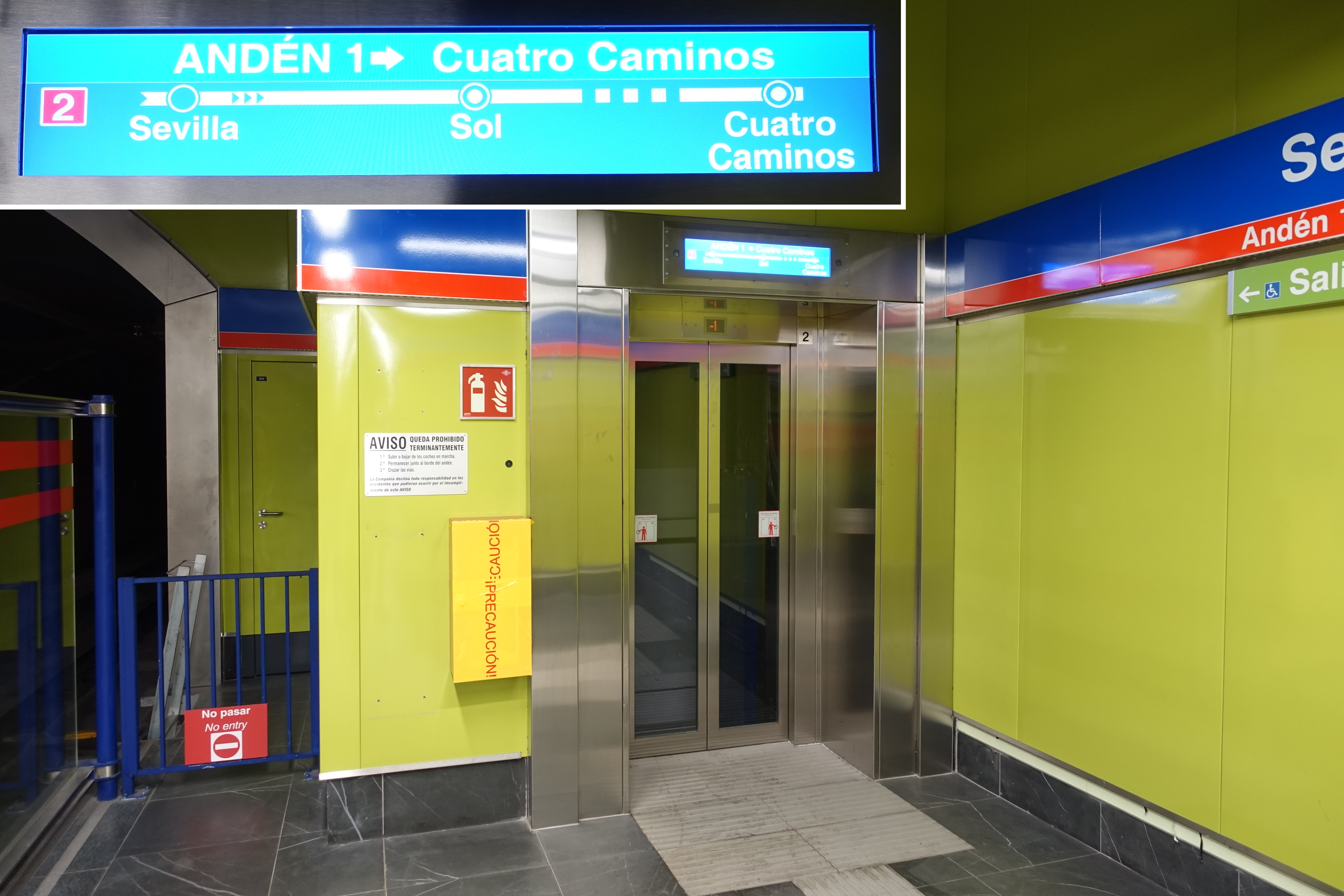 New elevator in station Sevilla of Metro Madrid with high definition info panel